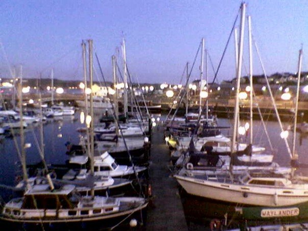 Author's personal photo